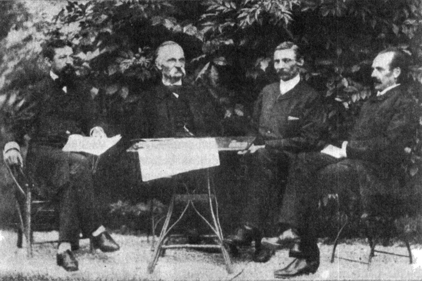 Founders of the Polish League in 1887 - Maksymilian Hertel, Zygmunt Miłkowski, Ludwik Michalski, Aleksander Hirschberg